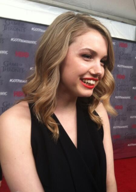 Hannah Murray at the première of Game of Thrones season 4 in New York.